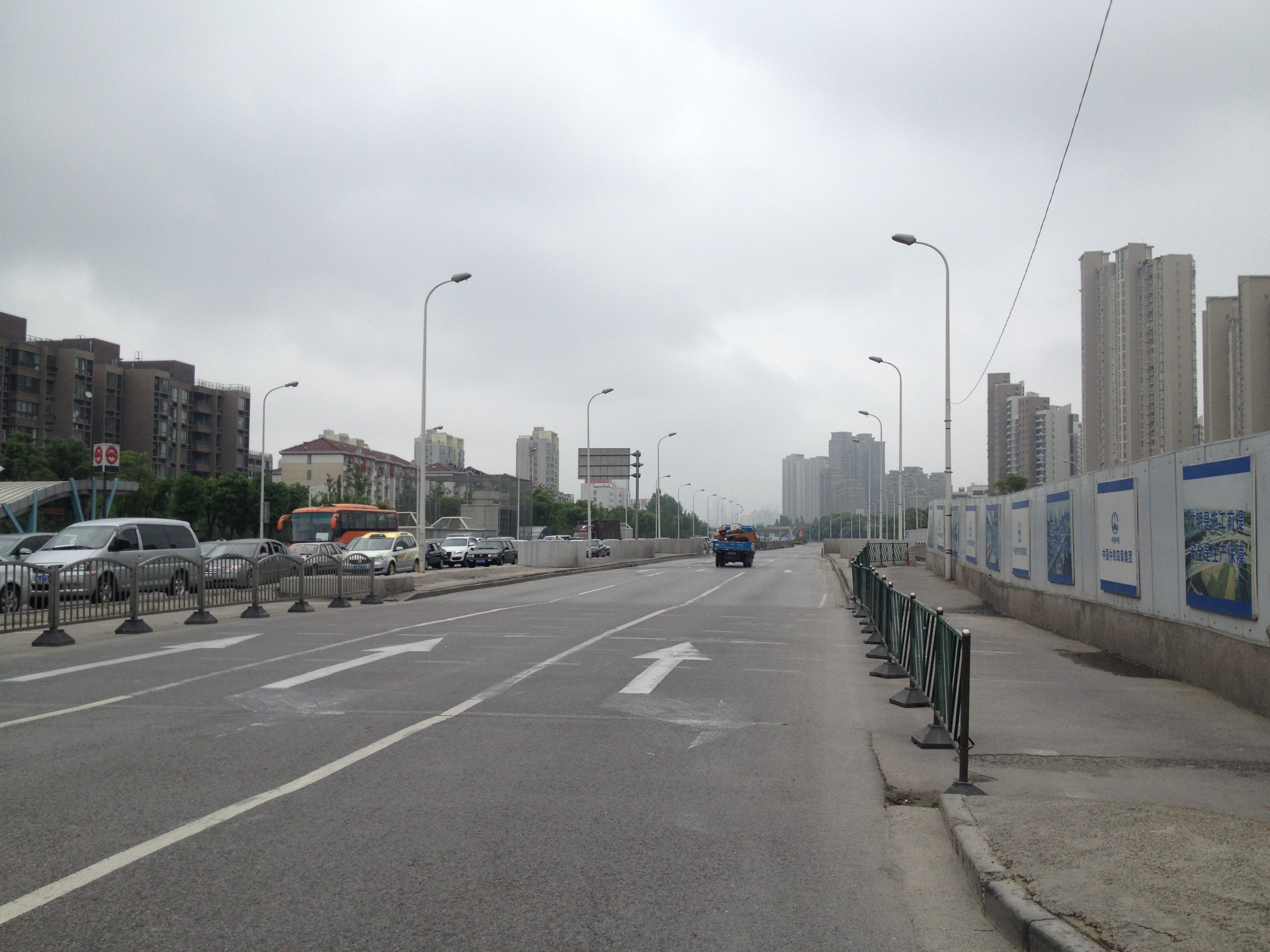 M Yanggao ROAD Shanghai